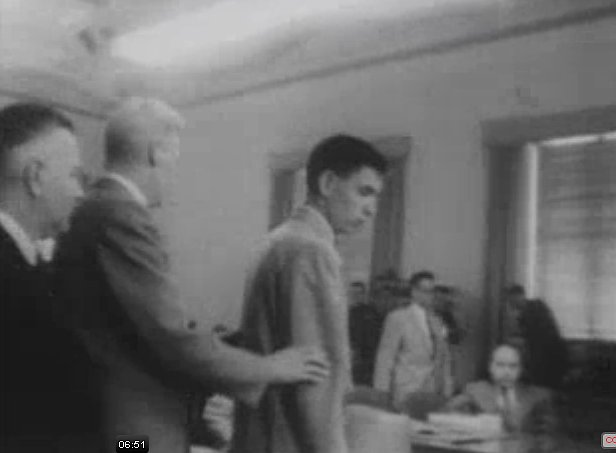 Screen capture from the movie posted on , from the Prelinger Archive, of the trial. Sharpened using GIMP. From "A Welcome Guest in the Home".